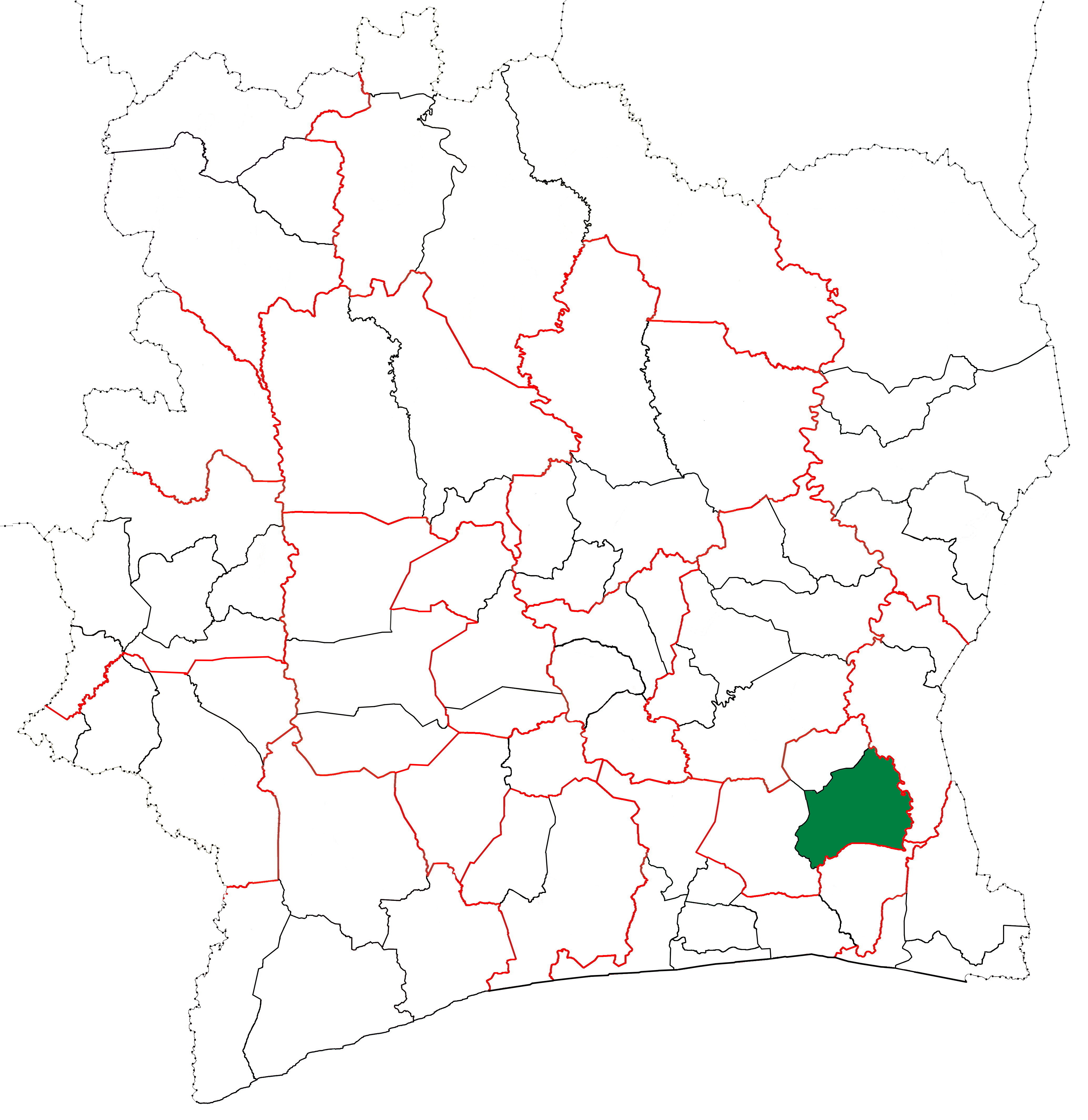 Locator map for Adzopé Department in Côte d'Ivoire in 2005. Adzopé Department kept these boundaries until 2008.